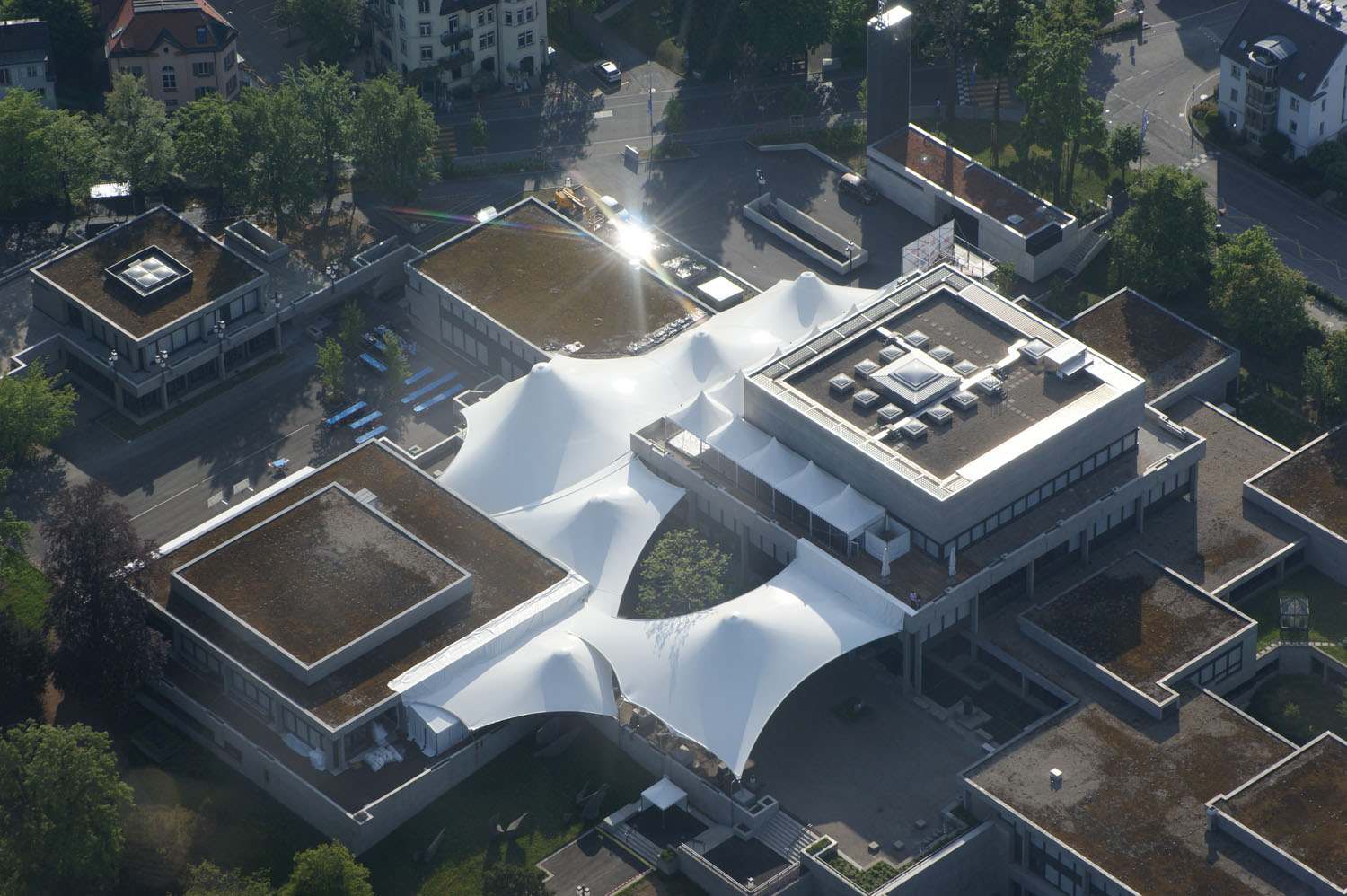 Aerial view of the University of St. Gallen during the 41. St. Gallen Symposium